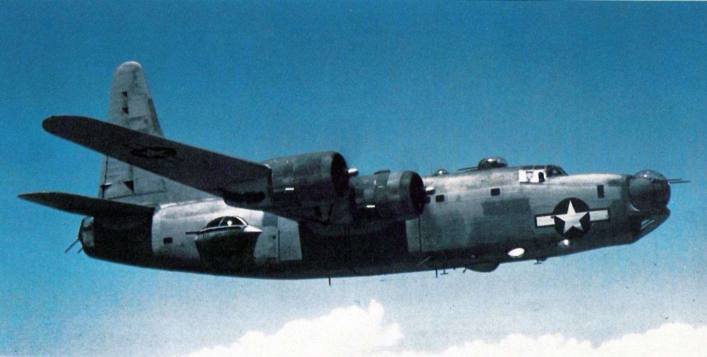 A U.S. Navy Consolidated PB4Y-2 Privateer in 1945.